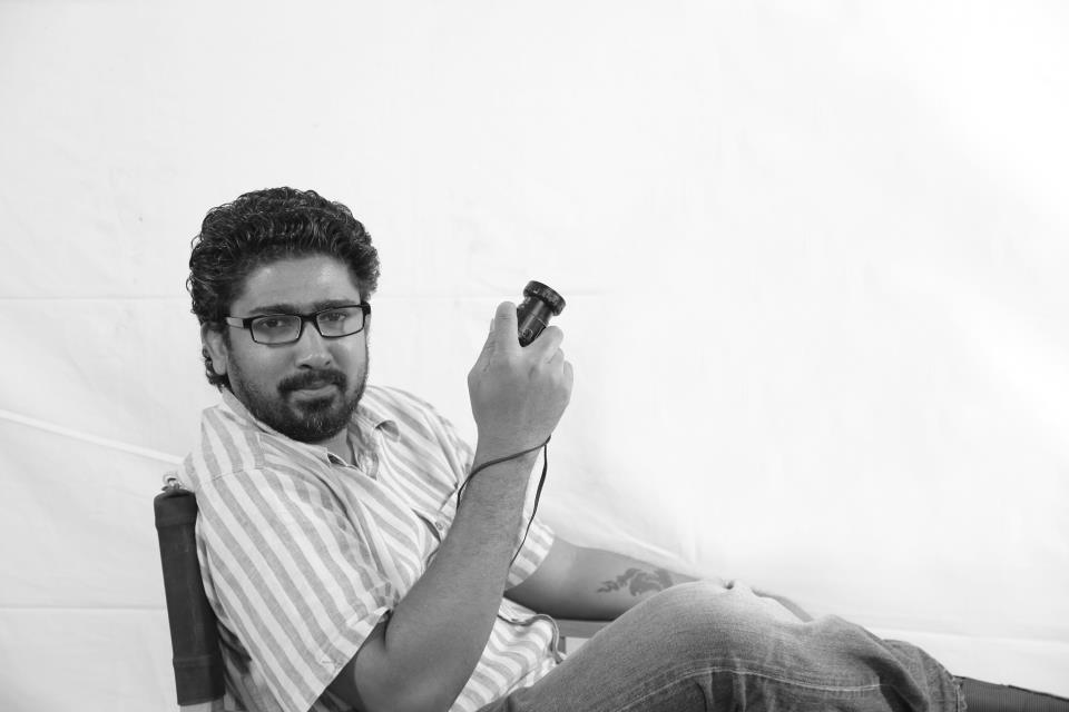 A photo of Udara from his Shoots